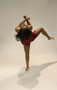 Performers from the Maggie Allesee Department of Dance enjoy the Department's relationships with some of Detroit's prestigious arts institutions.